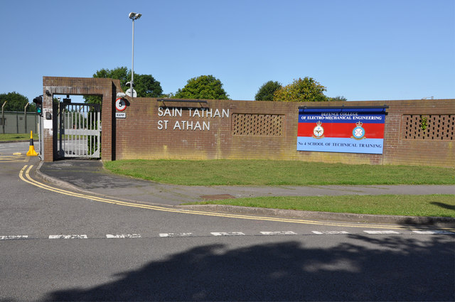 Airfield entrance - St Athan During its life as an RAF unit the airfield was pretty much divided into two halves with separate functions of maintenance and of training. This is one side of the entrance gate on East Camp that held the training facility and some elements of maintenance. The site is now in the hands of the Welsh Assembly Government (WAG)hence its apparent crisis of identity. This photograph shows it to be the home of the Defence College of Electro-Mechanical Engineering, No 4 School of Technical Training. One of two adjacent imposing gates that lead to confusion among visitors.